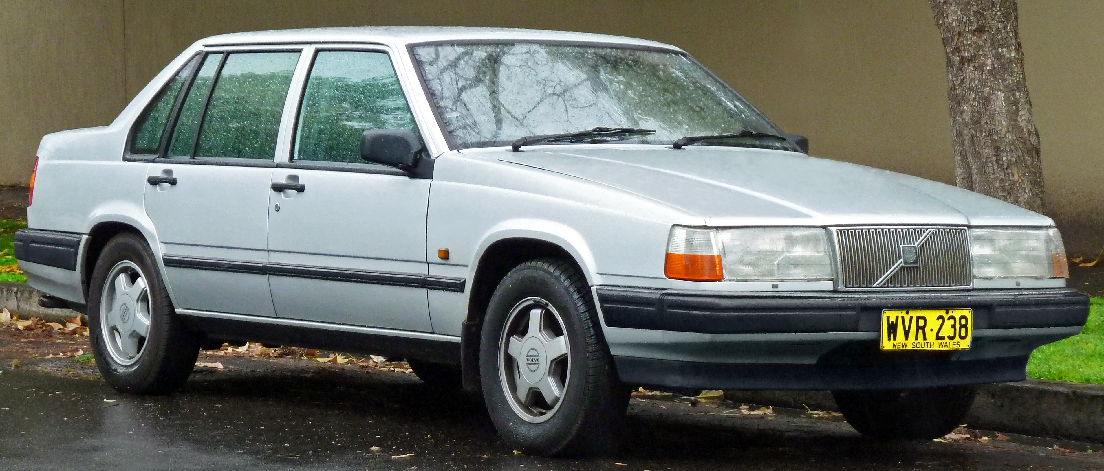 1991 Volvo 940 GL sedan. Photographed in Roseville, New South Wales, Australia.